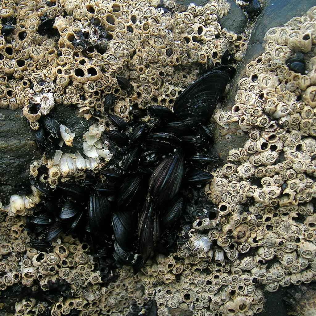 Barnacles (Semibalanus balanoides) and blue mussels (Mytilus) in northwestern Galicia, Spain